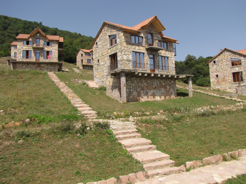 Yenokavan village, Armenia